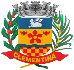 Brasão de Clementina - SP